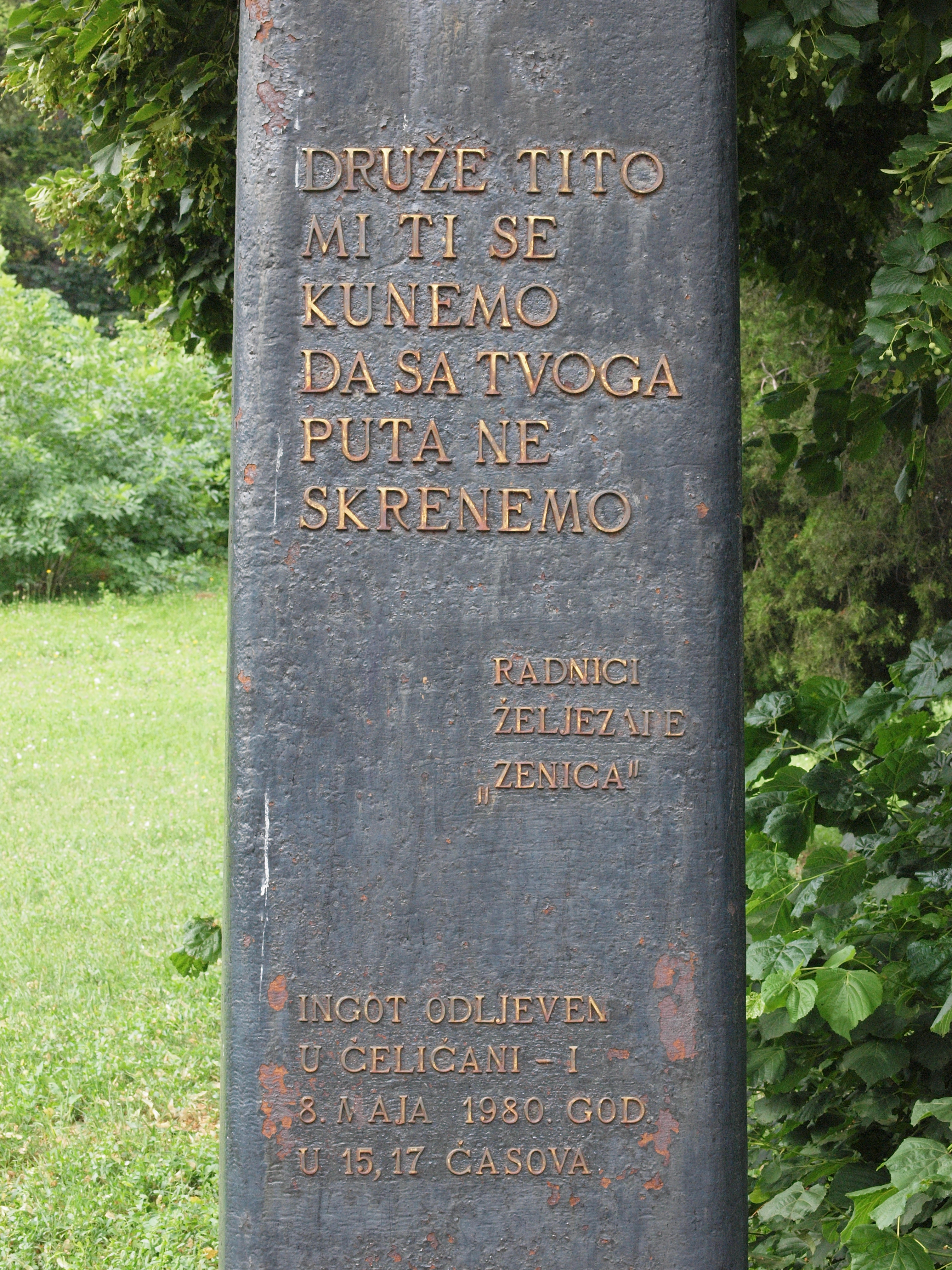 Column from 08. May 1980 from the Zenica iron works with the political statement of brotherhood folowing the Tito principles. At the musemum of the history of Yugoslavia